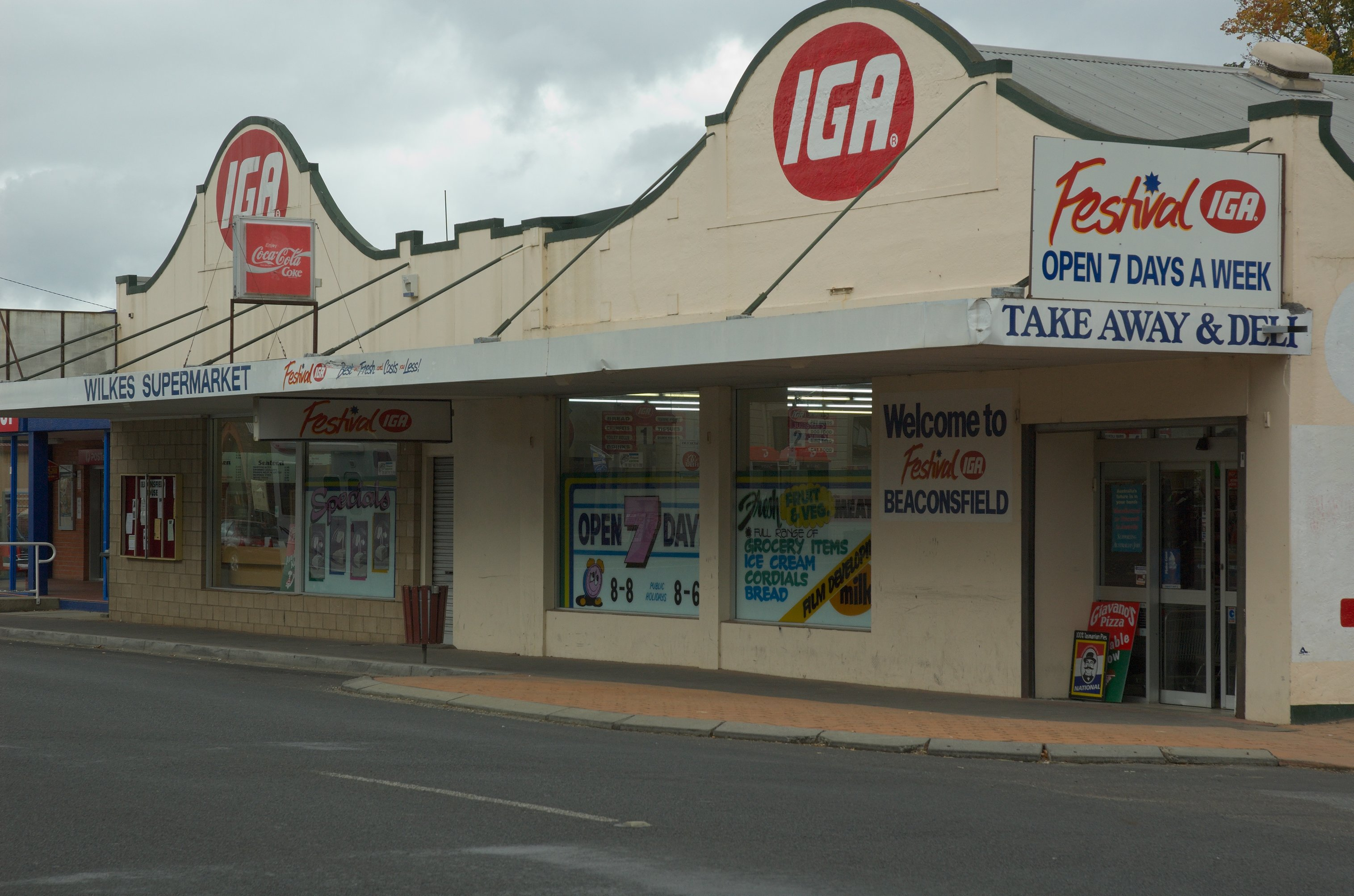 Wilkes Supermarket in Beaconsfield, Tasmania, with the discontinued Festival IGA brand. The store later became IGA Everyday.